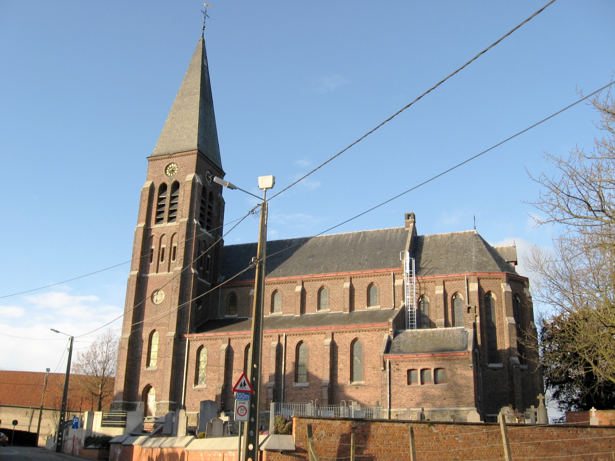 Church of Saint Martin in Riemst, Limburg, Belgium